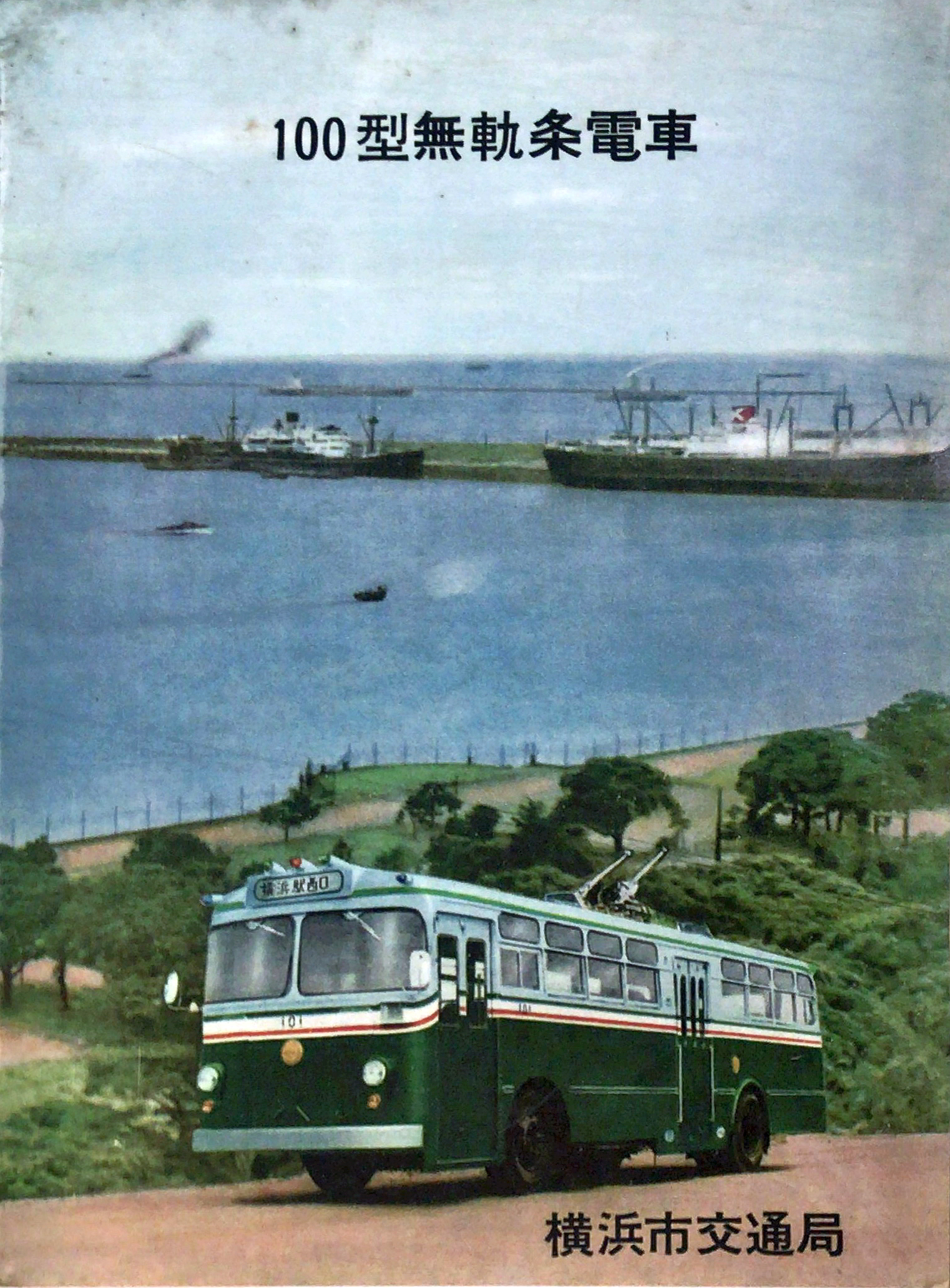 Booklet of ” Trolley bus 100 type " operated by the Yokohama city transportation bureau.